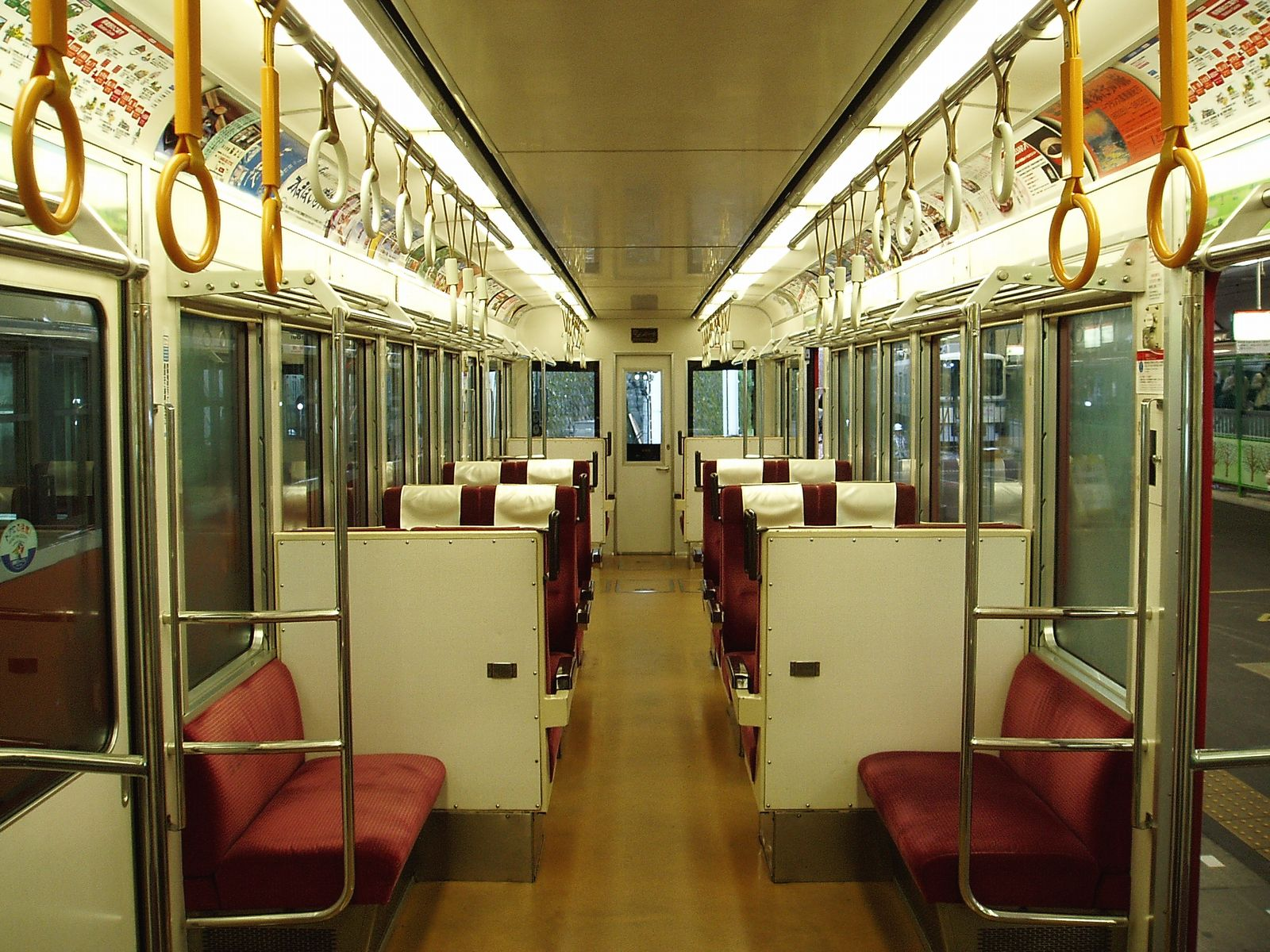 Inside of Hakone tozan Railway EMU type 2000 "St. Moritz" At Hakone-Yumoto Sta.